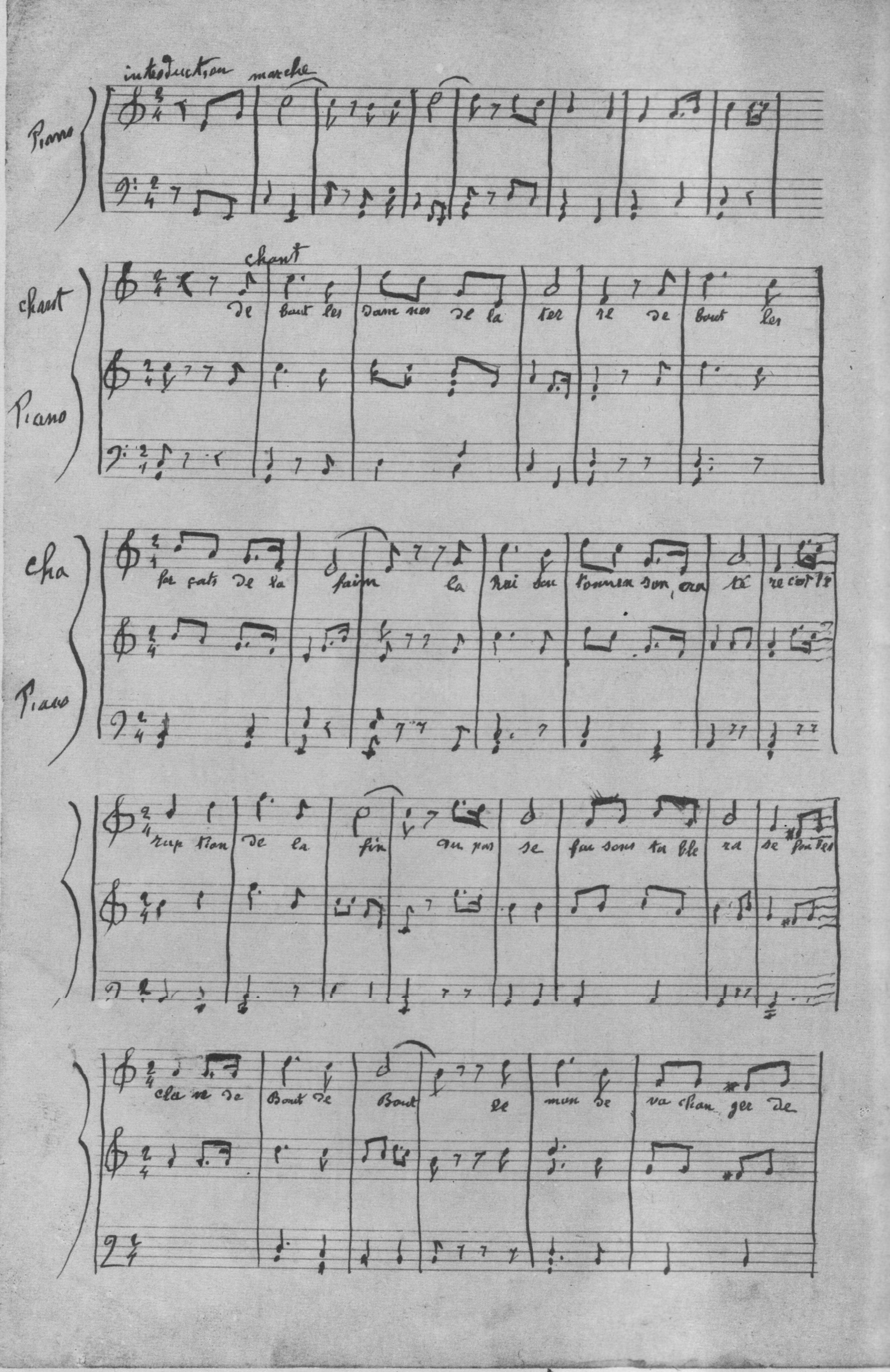 The original of the facsimile of the International was in the Institute for Marxism-Leninism of the Socialist Unity Party of Germany. Accourding to the title page it is an arrangement for voice and piano, a handwritten copy mad by the composer and signed by him. Further, it is stated that Pierre Degeyter composed the tune to verses by Pottier in 1888 an that the copyright has been applied for in all countries. That the addition of fait à Lilleen 1888 refers to the year of composition an not to the present version is proved by the fact, that Degeyter first began to make applications for the sole legal right of copyright in 1906, the signature however, demonstrates that copyright has already been applied for. It is therefore almost certain that this copy was made sometime after 1906.